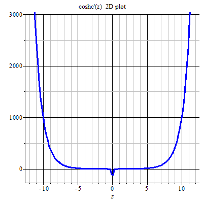 Coshc function 2D Maple plot